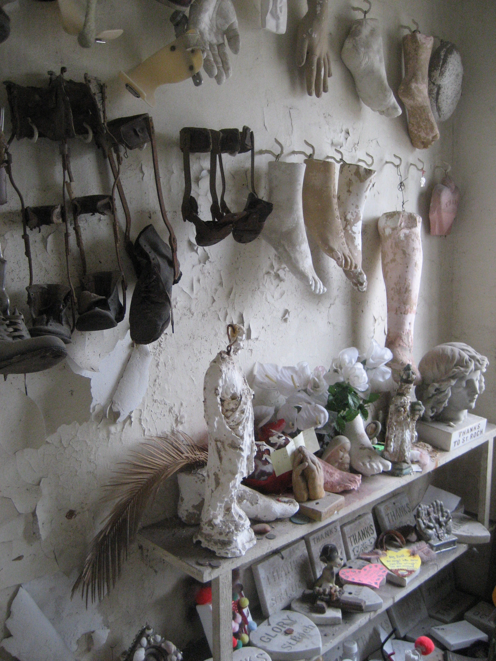 New Orleans: Chapel in St. Roch Cemetery. Offerings of thanks for miracles by St. Roch, including crutches and effigies of body parts.